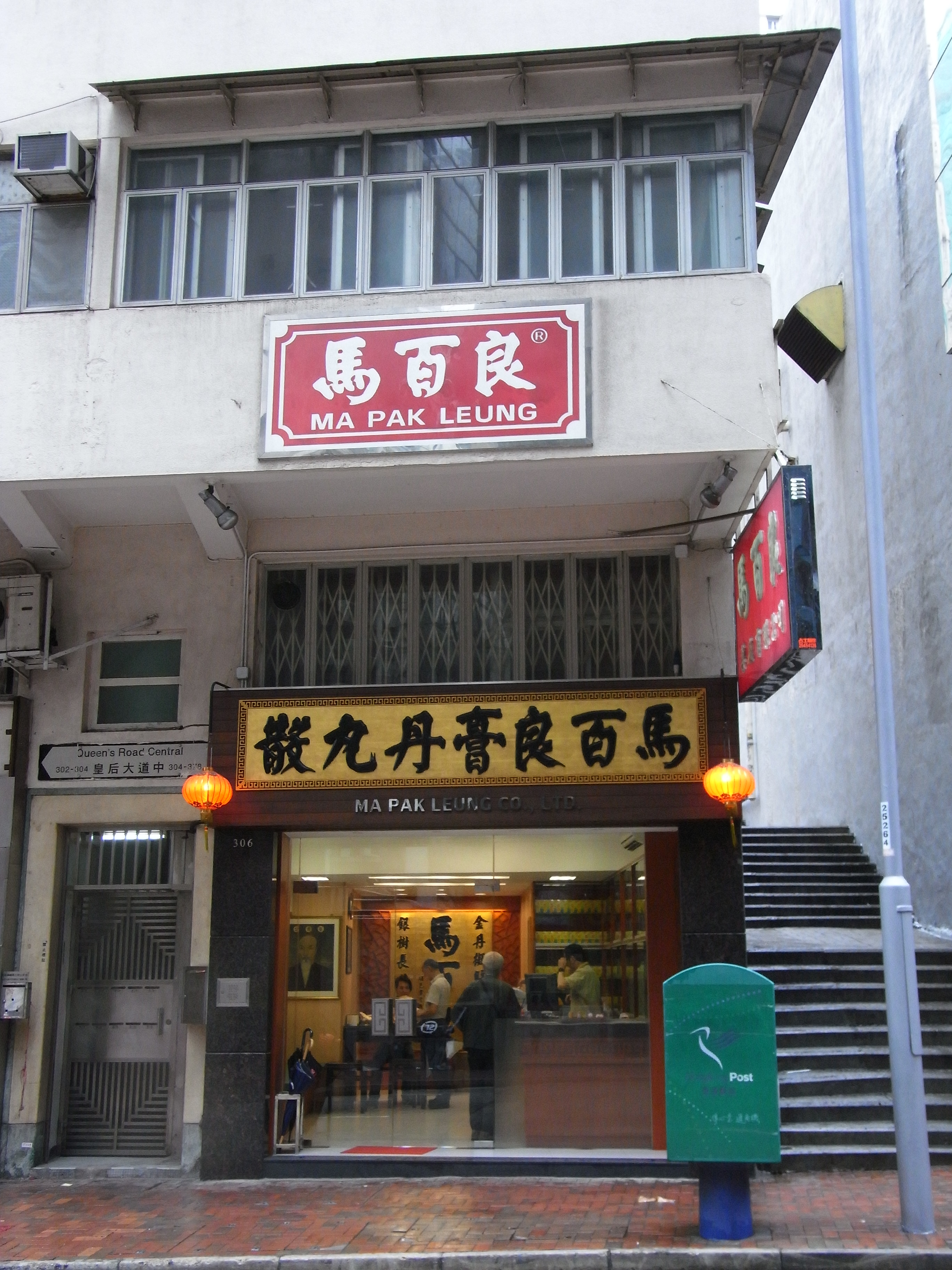 306 Queen's Road Central, Sheung Wan, Hong Kong